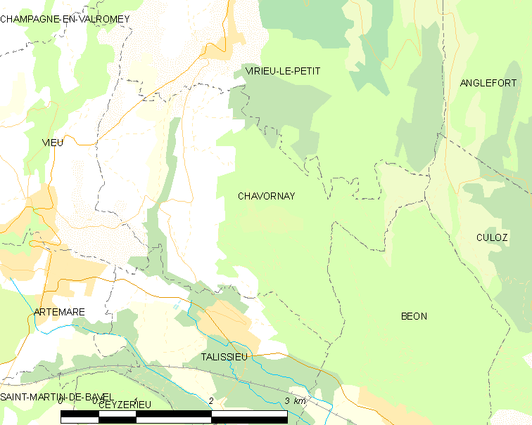 Map of French commune: Chavornay Map commune FR insee code 01097.png